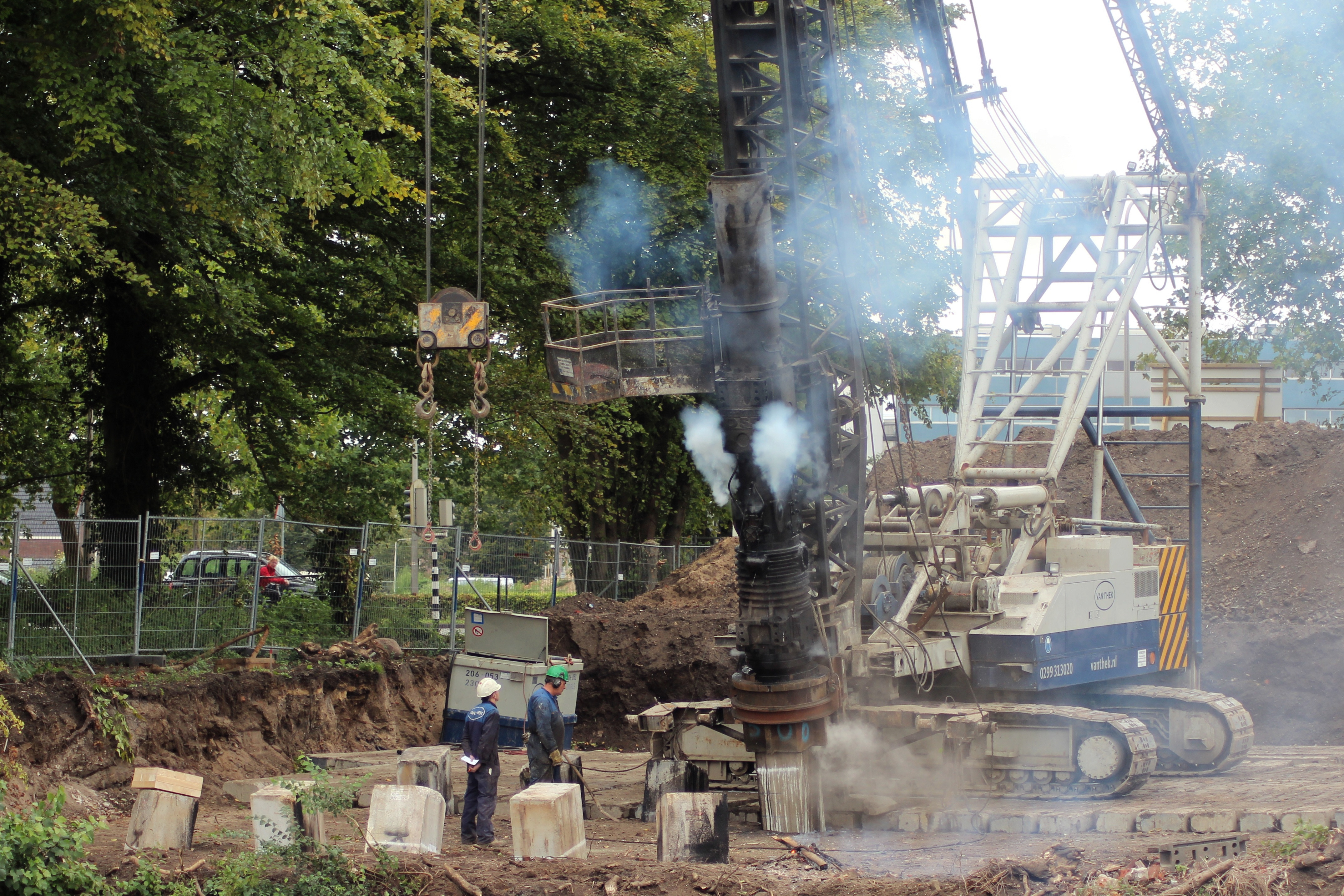 Pile driver in action. The lighter splodge in front of the crane is dust from the pile itself. Note the piles are not driven in straight, but in a V-shaped pattern to better distribute the load. Also note the cylinder head is not quite able to contain the high-pressure gasses. little puffs of smoke erupt from both sides.